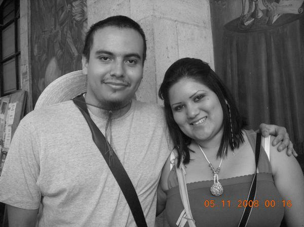 Mexican young people. Mestizo and pai-pai.